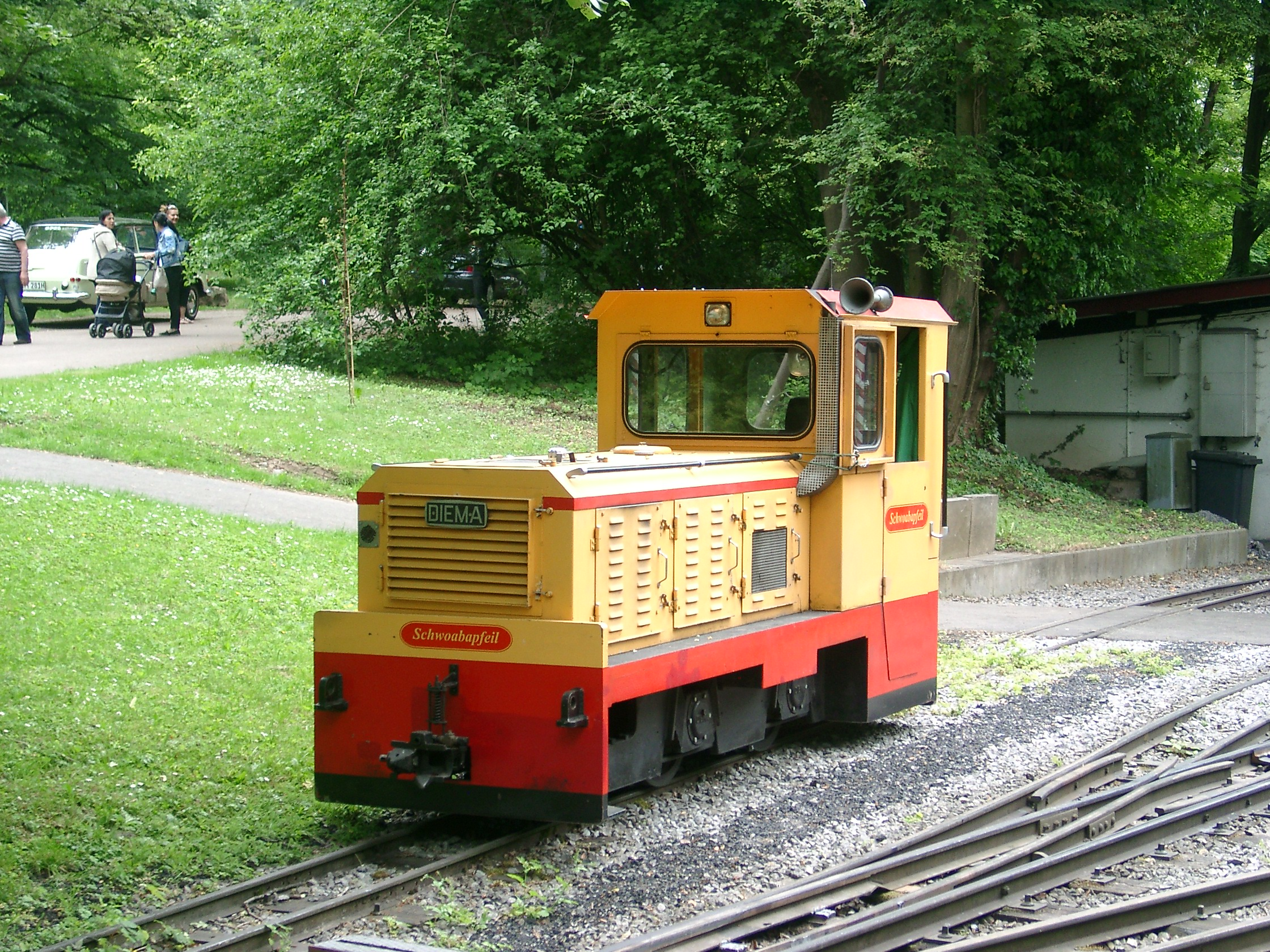 Schwoabapfeil, Locomotive